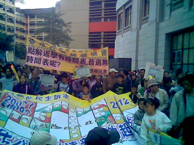 Children participating in demonstration at Hong Kong. Photoed by Tomchiukc in Causeway Bay, 4-Dec-2005.